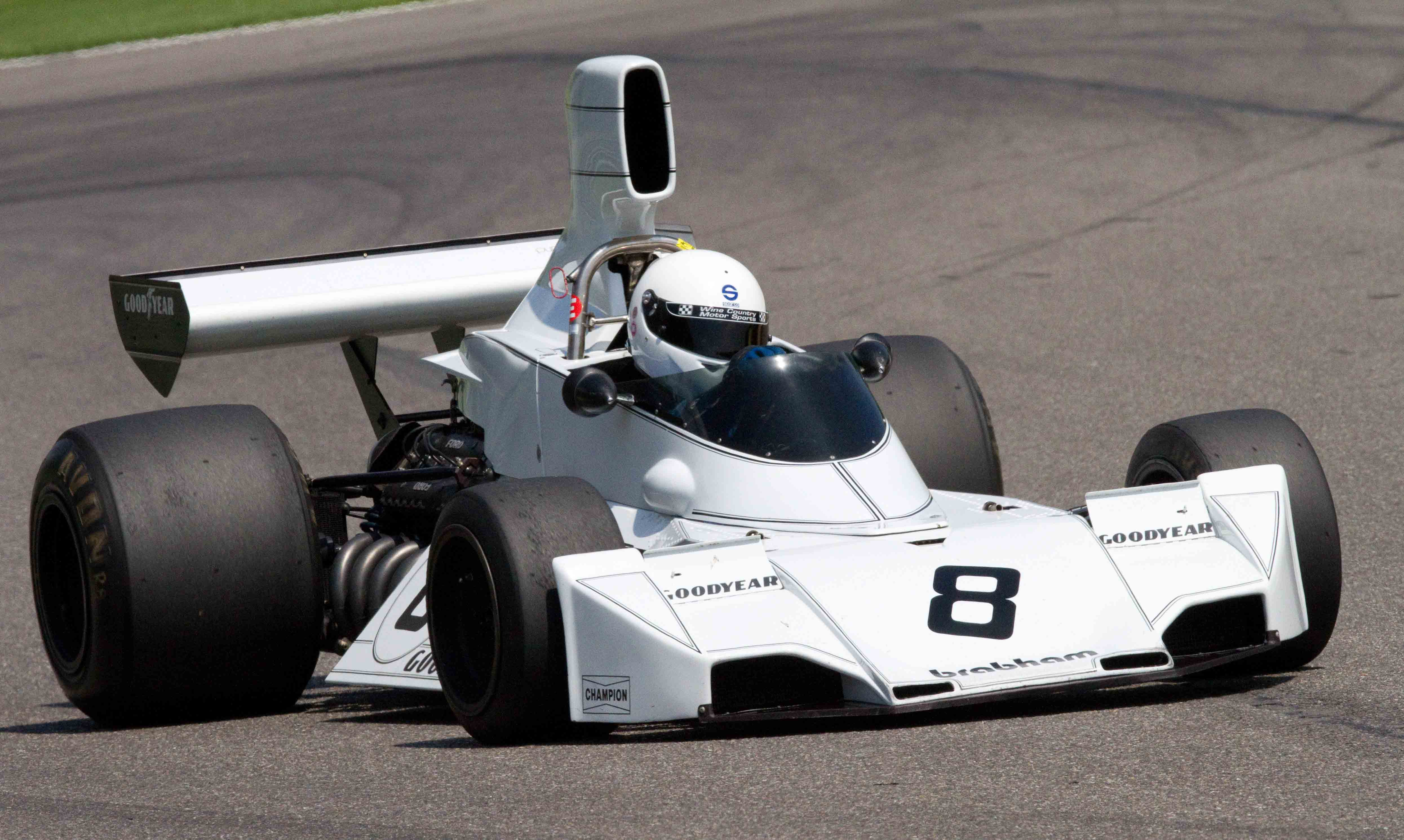 Brabham BT44 at Barber Motorsports Park, 2010